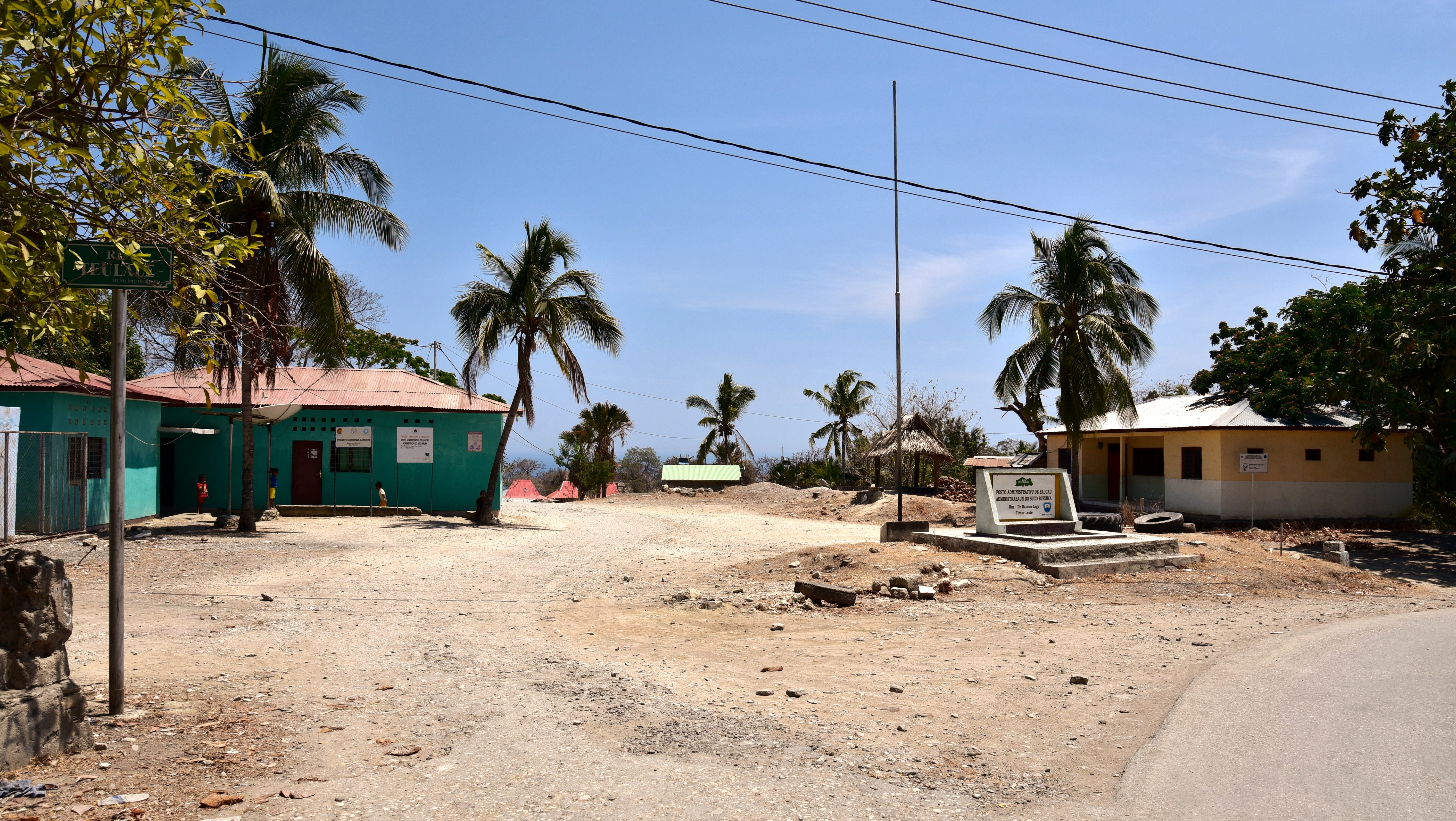 View of the Sede do Suco de Buruma (Baucau), Buruma, East Timor